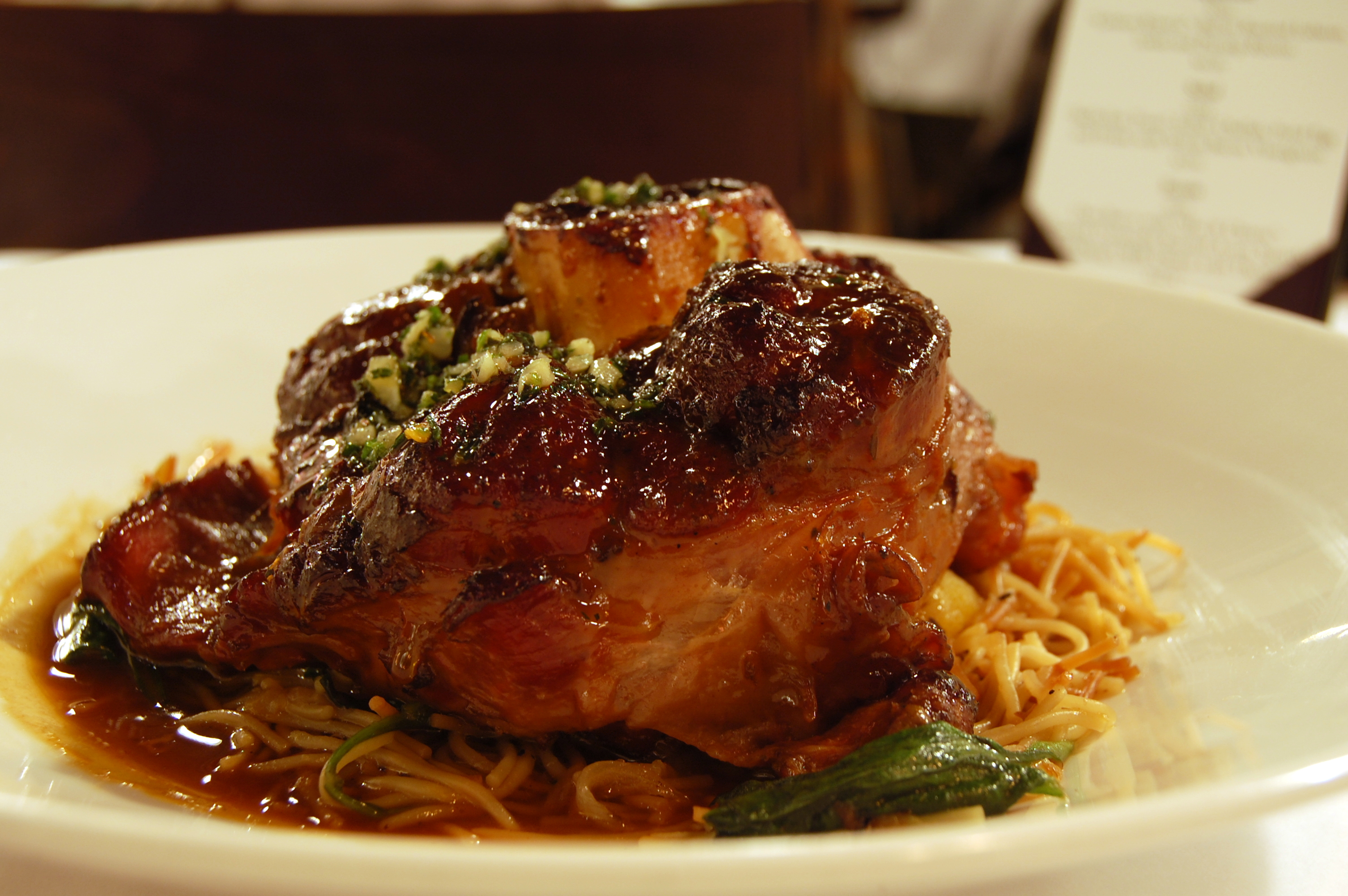 Osso Buco.